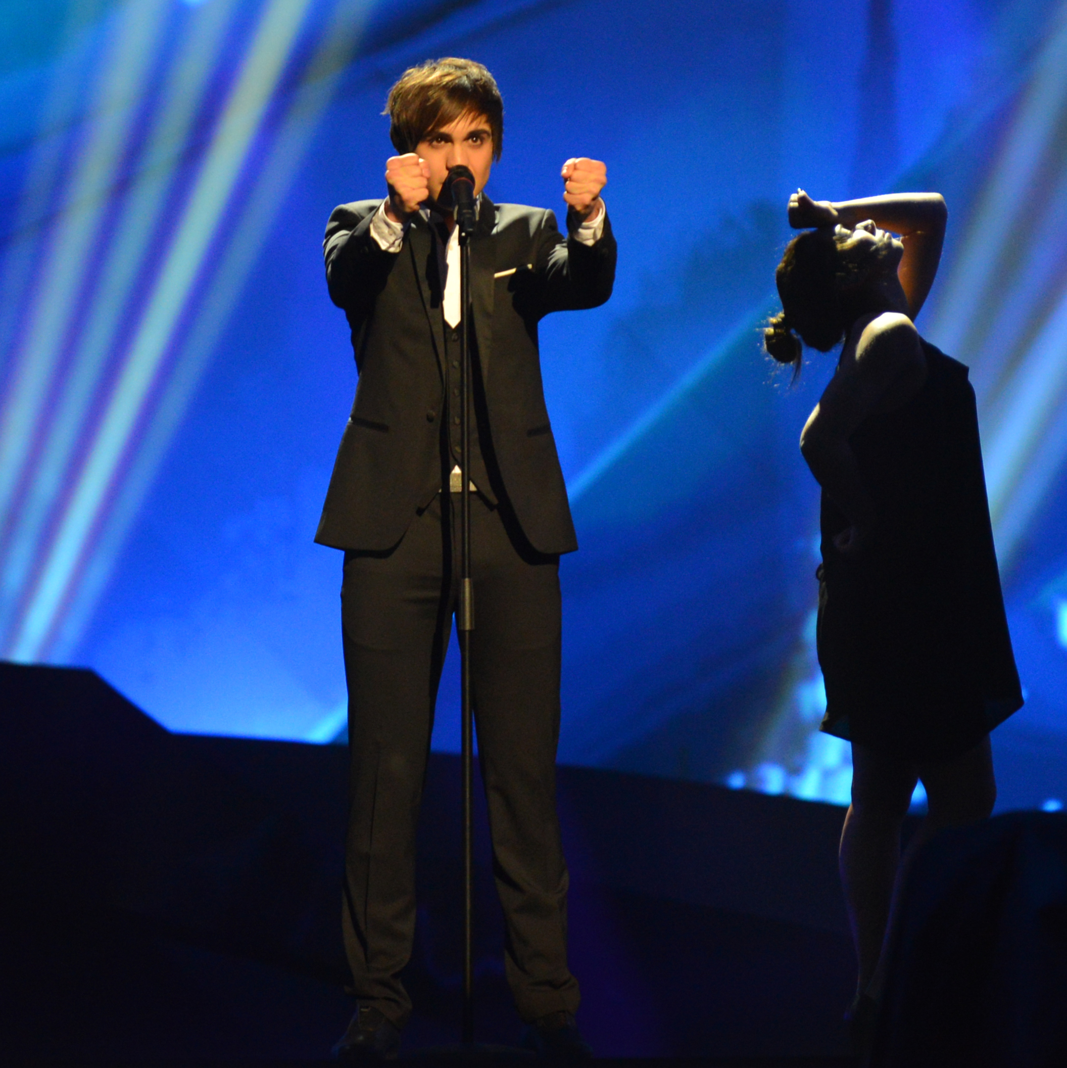 Roberto Bellarosa representing Belgium with the song "Love Kills" during the first dress rehearsal of the first semi final of the Eurovision Song Contest 2013 in Malmö. (Help translate this text)